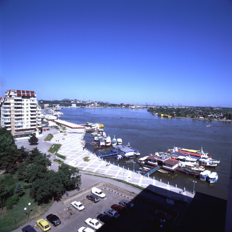 City of Tulcea, Romania